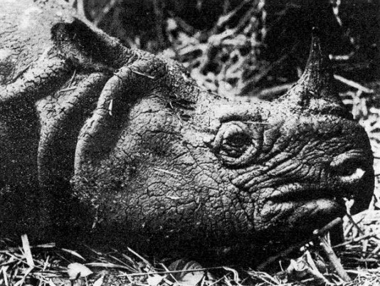 Head of a male Javan rhino shot on 31 January 1934 at Sindangkerta in West Java. Specimen preserved in the Zoological Museum of Buitenzorg (Bogor) (from Sody, 1941, first published in Indonesia).